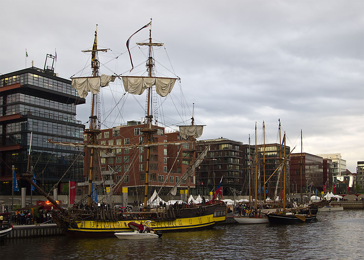 Sailing ships in Traditionsschiffhafen at Sandtorkai in HafenCity, Hamburg, Germany